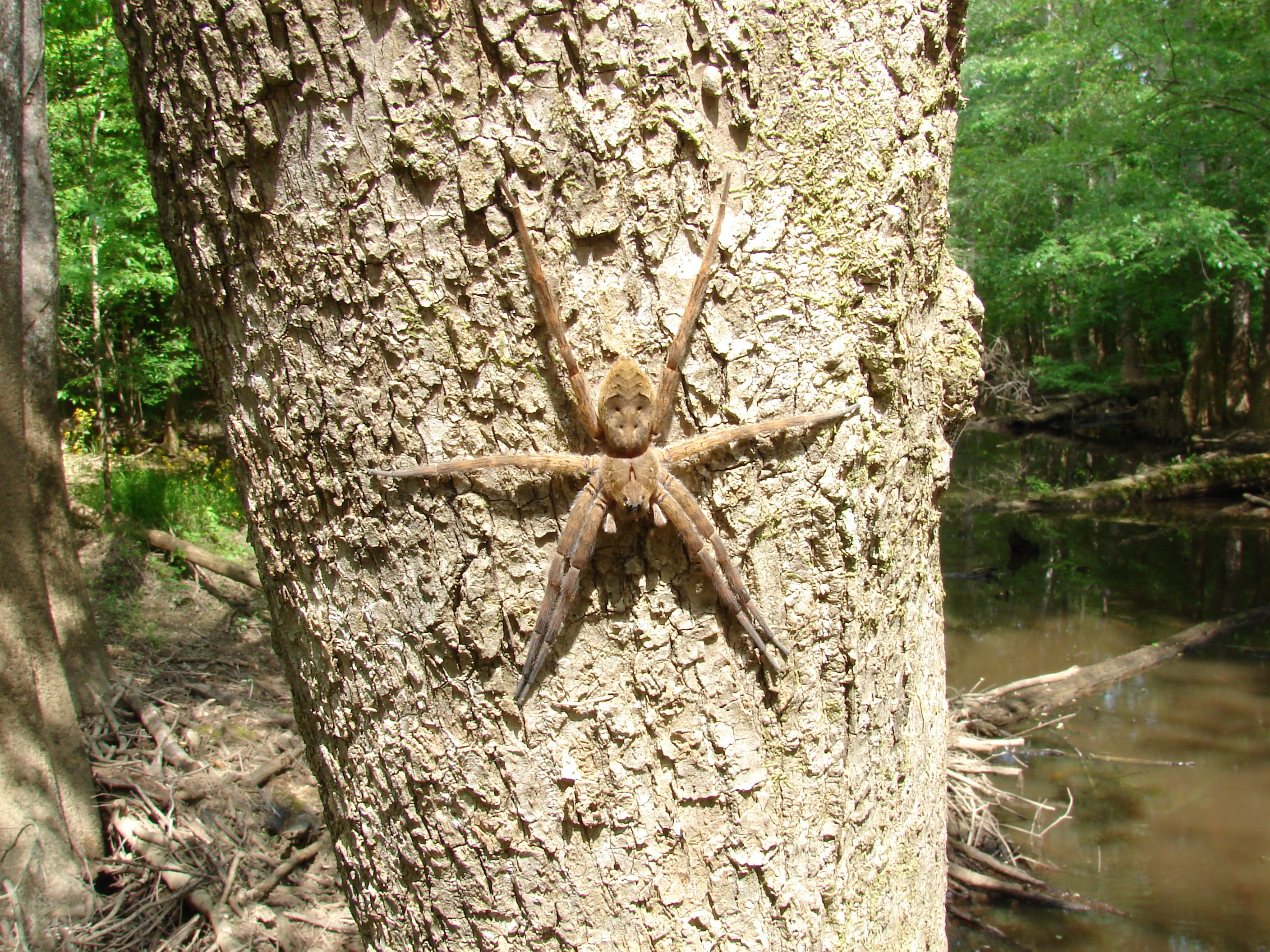 Dolomedes tenebrosus at Congaree National Park, South Carolina, USA